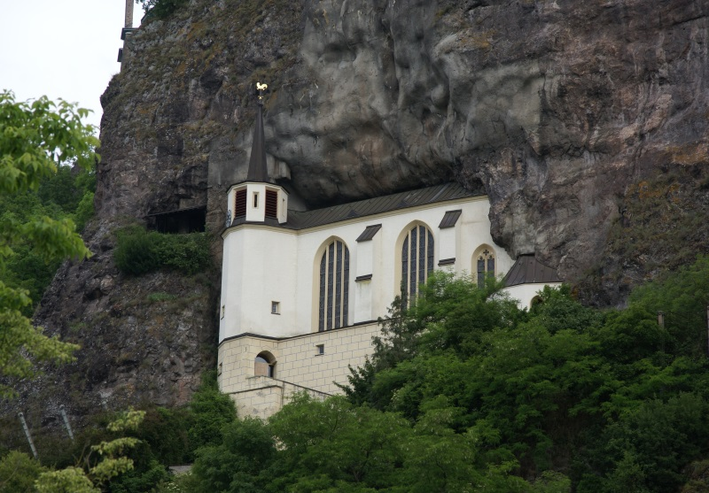 Felsenkirche, Idar-Oberstein, Germany.